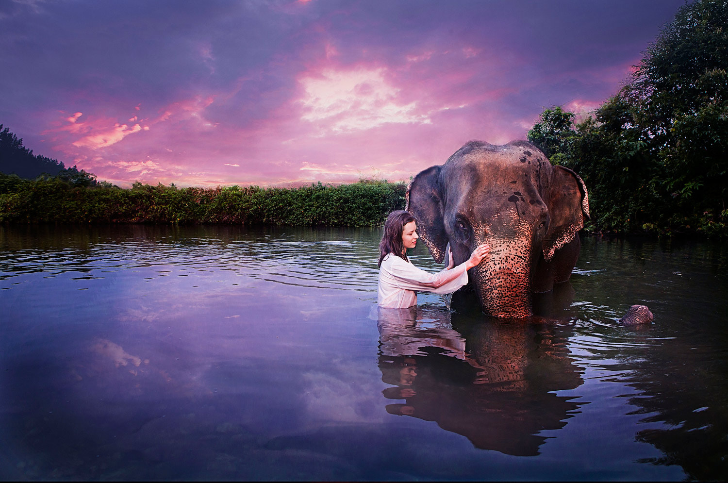 500px provided description: Portrait from series "Bond of love" people and their animal friends People with story to tell [#sky ,#landscape ,#portrait ,#girl ,#beauty ,#sunset ,#water ,#nature ,#travel ,#blue ,#light ,#thailand ,#summer ,#woman ,#love ,#model ,#asia ,#canon ,#5d mark ii ,#magazine ,#sexy ,#moody ,#friendship ,#elephant ,#photography ,#photoshop ,#cover ,#retouching ,#shot ,#magenta ,#fantastic ,#like ,#amazing ,#popular ,#bond ,#editor ,#follow ,#bestof ,#bond of love ,#photooftheday ,#picoftheday ,#national geografic ,#geografic ,#Koh-Chang]